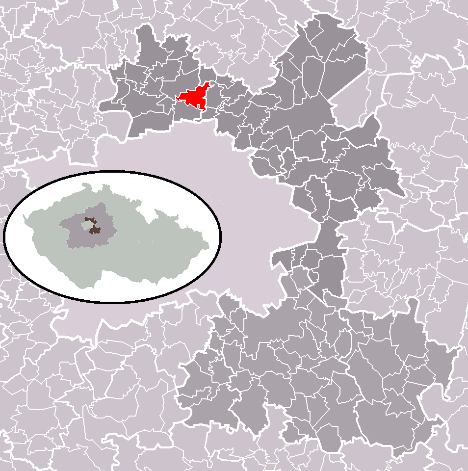 Location of Líbeznice municipality within Prague-East District and administrative area of Brandýs nad Labem-Stará Boleslav as a Municipality with Extended Competence.